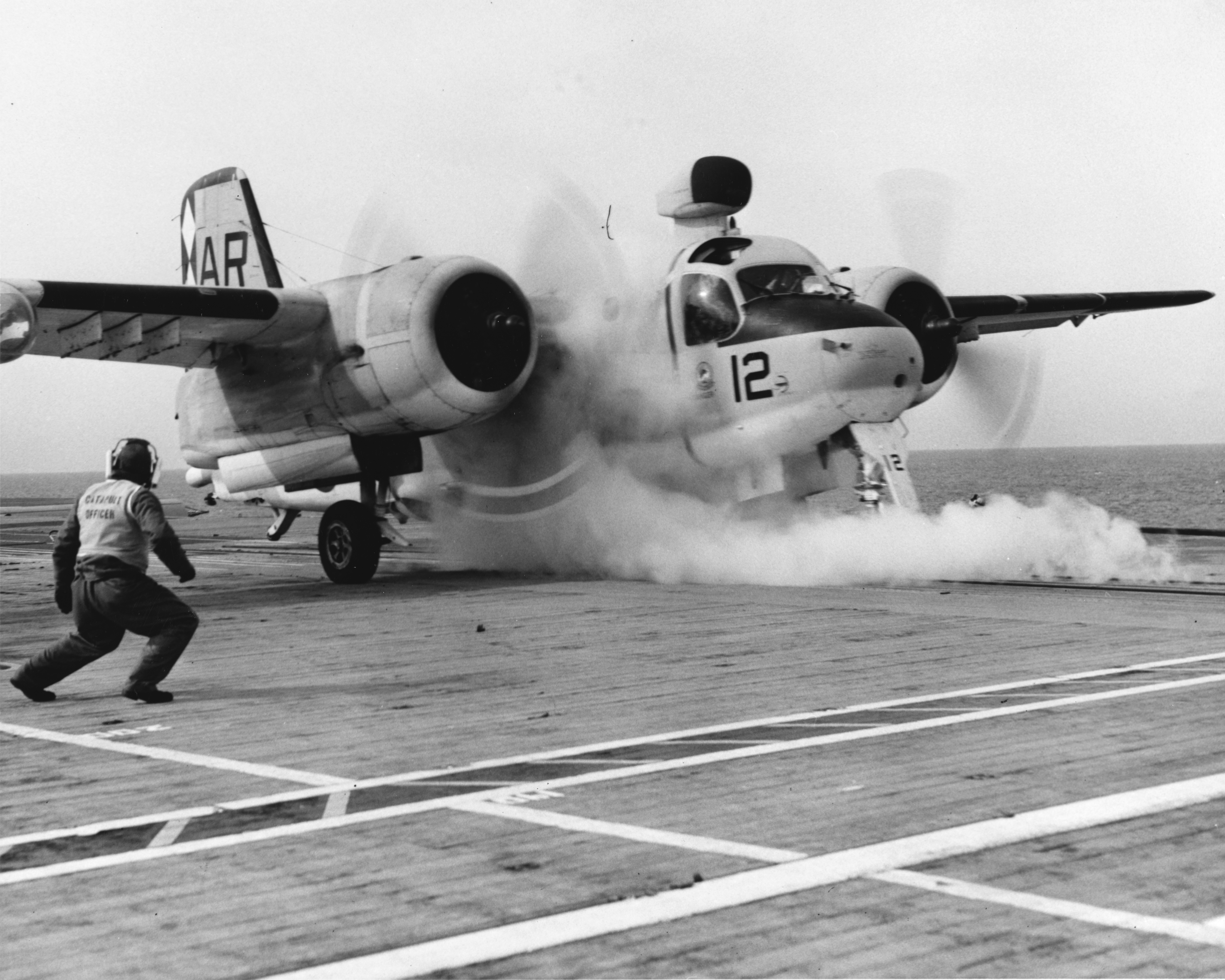 The catapult officer is giving the "launch" signal to a Grumman S-2D Tracker of Reserve Carrier Anti-Submarine Air Group 51 (RCVSG-51) on the port catapult of the U.S. Navy training carrier USS Lexington (CVS-16) on 22 January 1963.